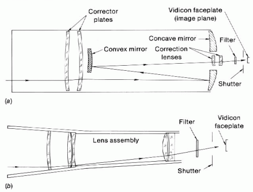 Voyager probe - Imaging Science System